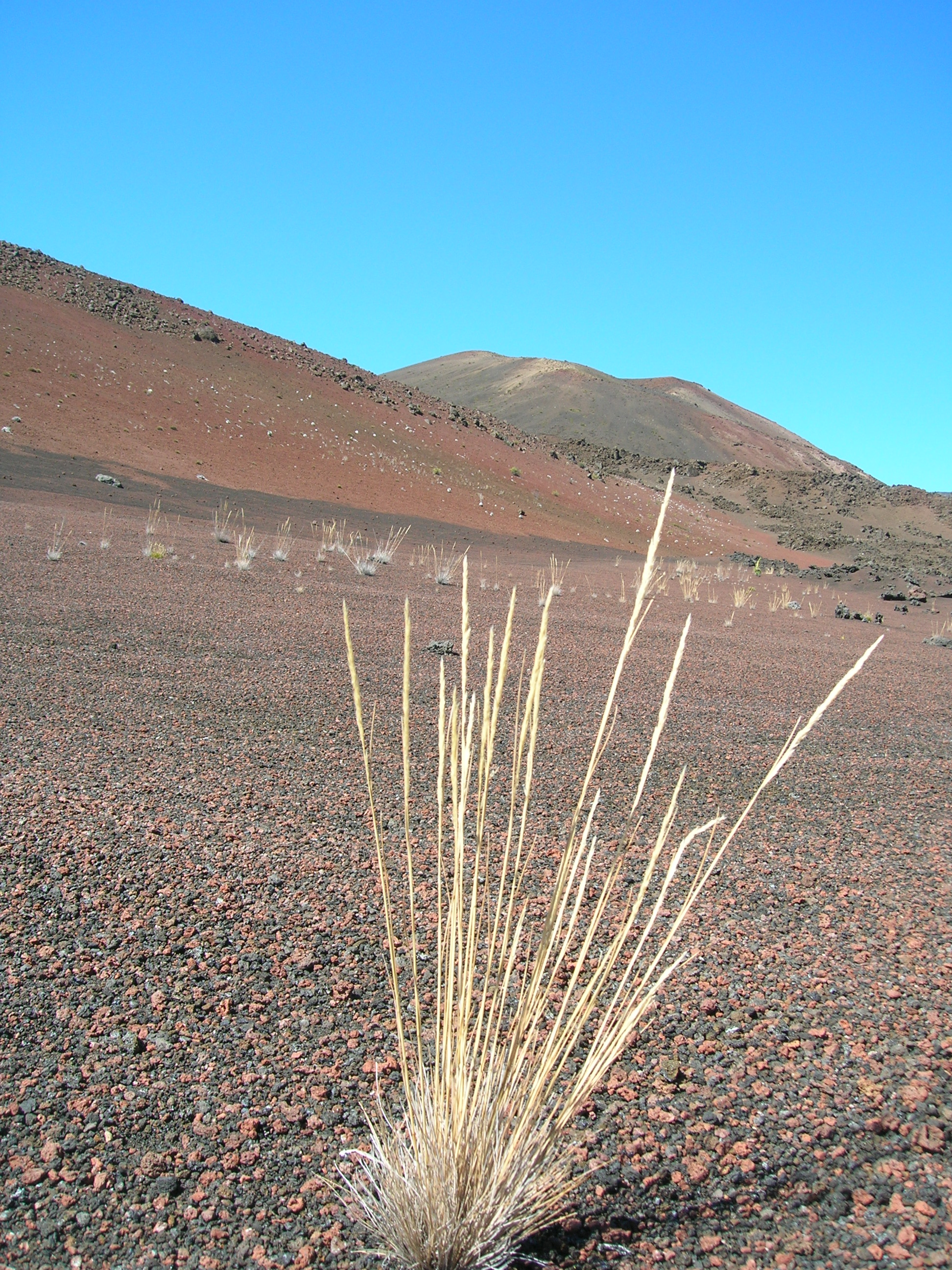 Agrostis sandwicensis (habit). Location: Maui, Lava Lake Haleakala National Park